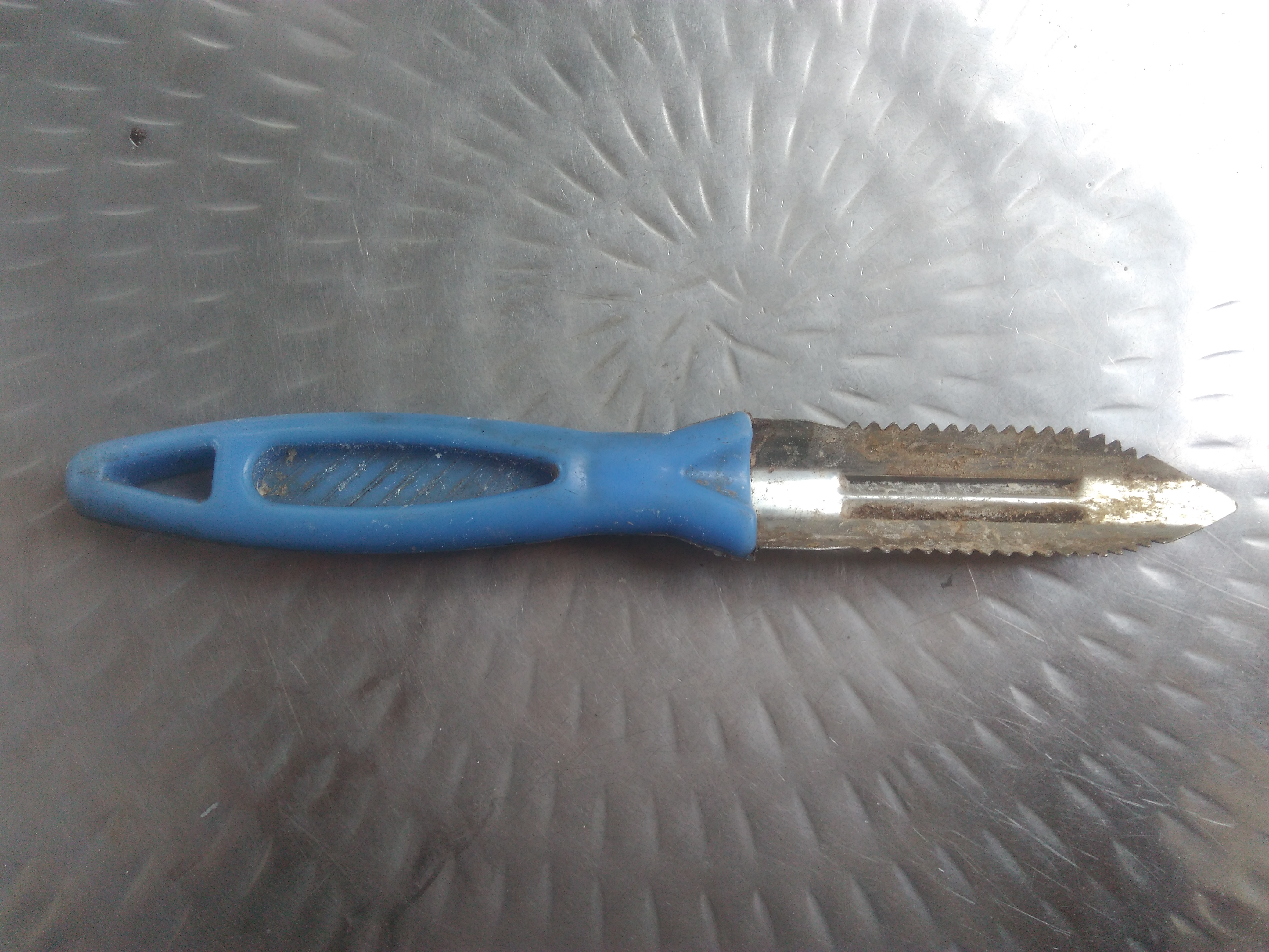 पाकसाधने - सोलणी